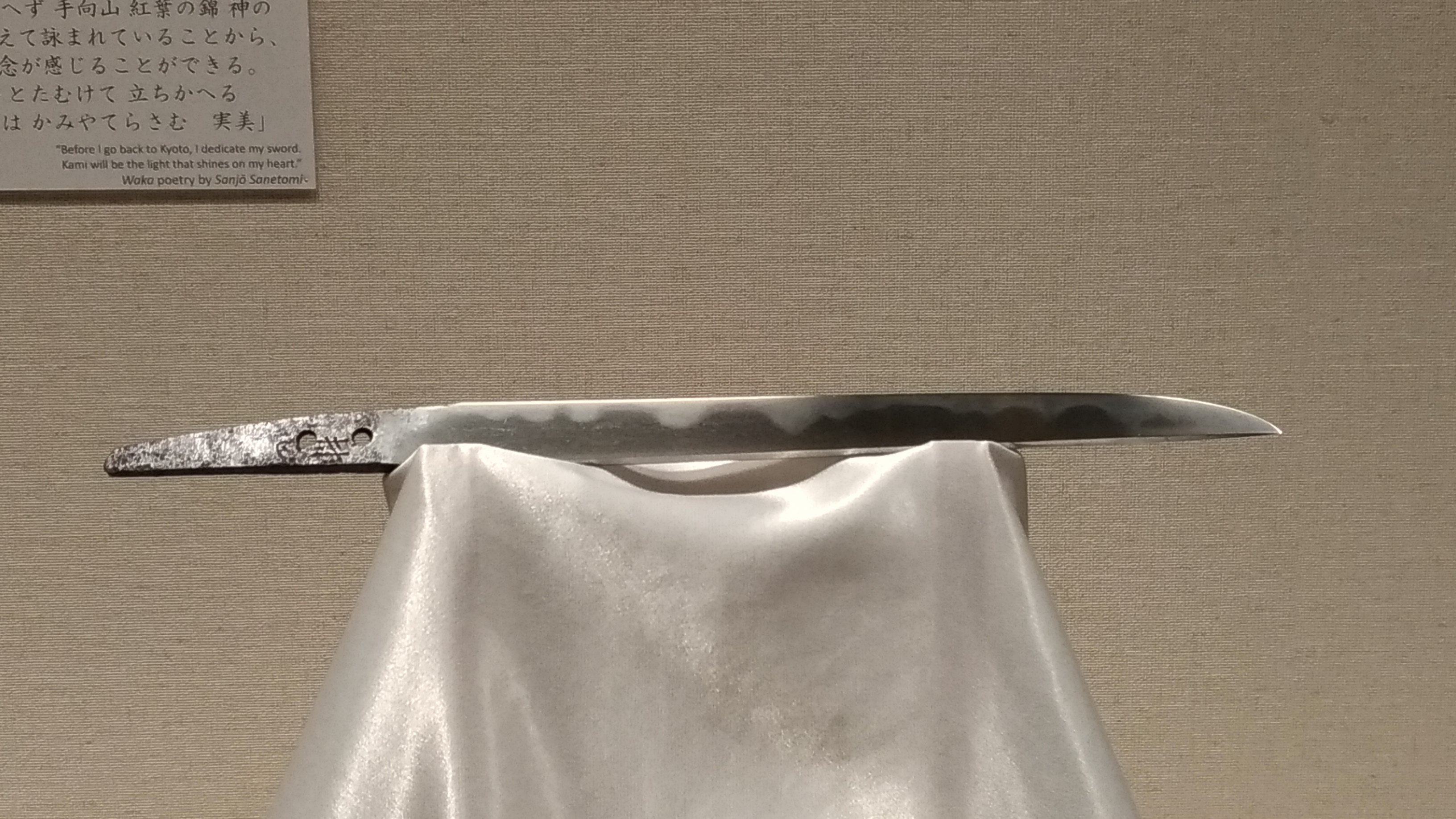 Tanto-Murasame dedicated to Daizaifu Tenmangu by Sanjo Sanemi in Muromachi period